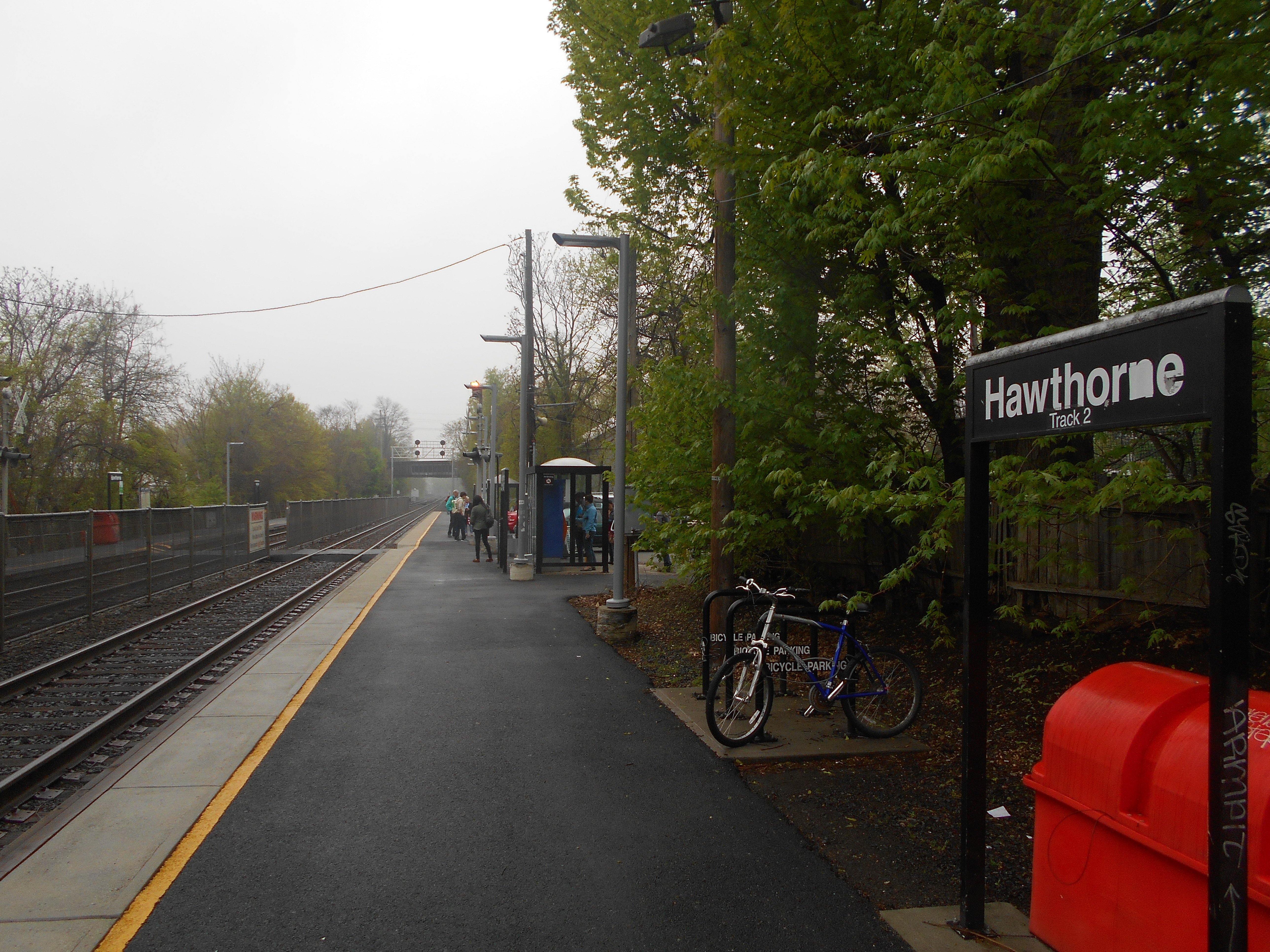 The Hawthorne New Jersey Transit station in Hawthorne, New Jersey.